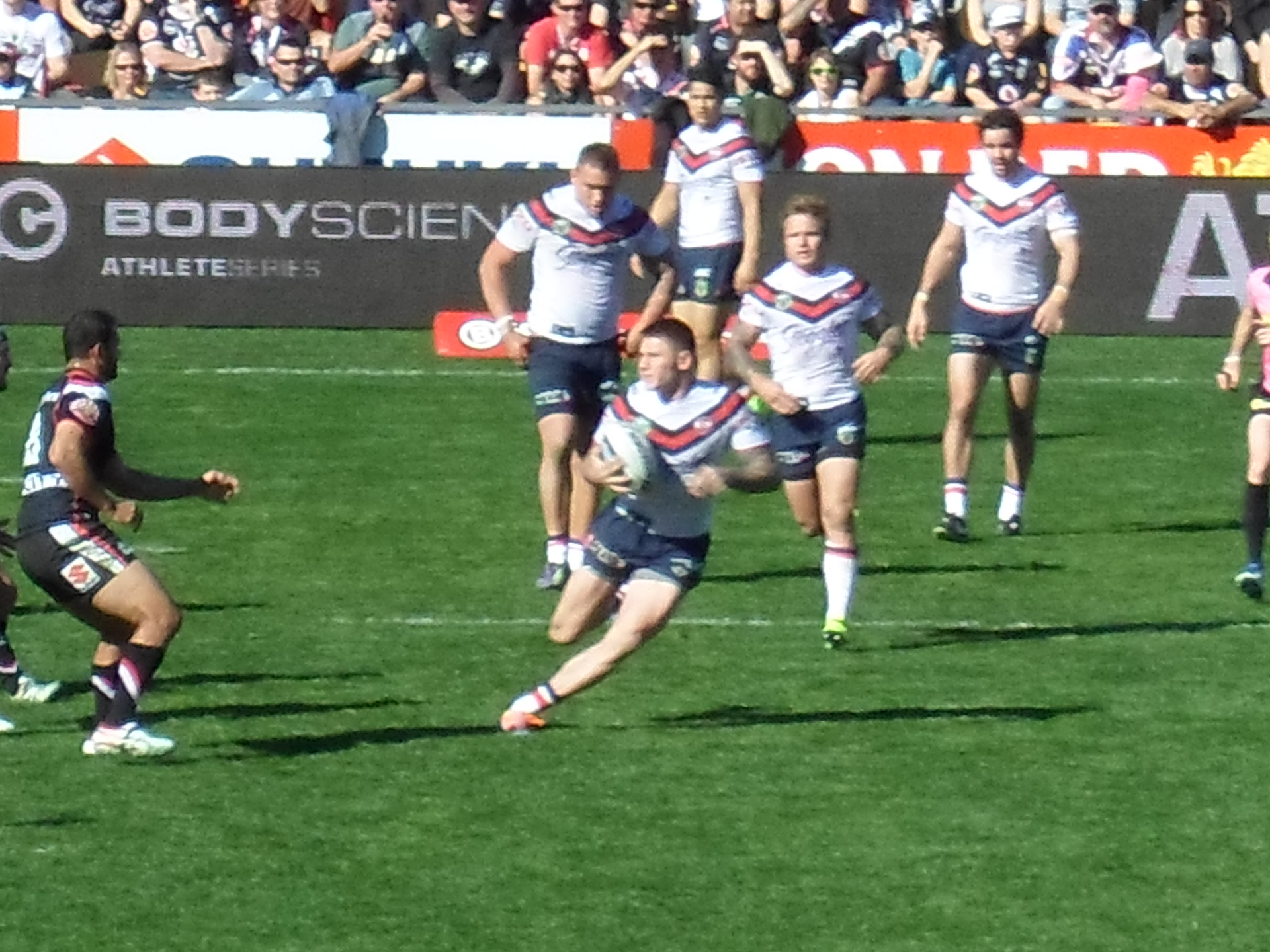 Roosters 2013 grand final hero Shaun Kenny-Dowall with the ball against the Warriors in 2014